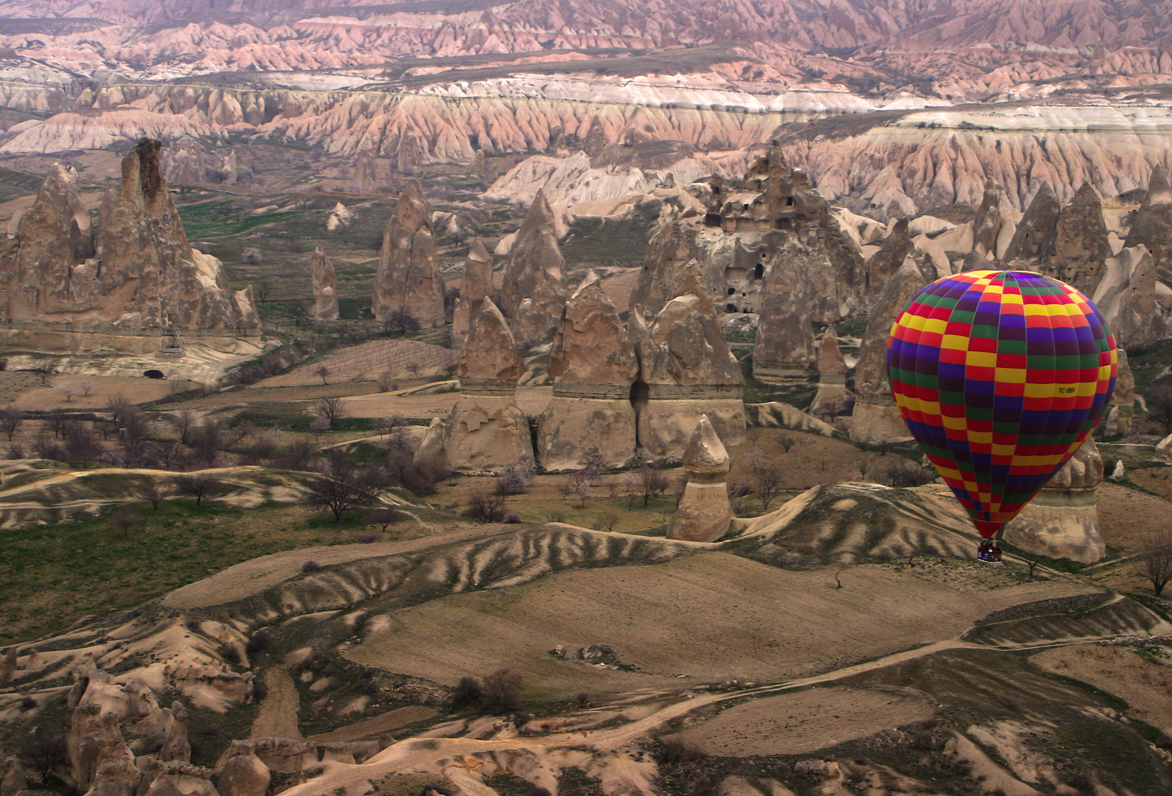 Hot air balloon over Cappadocia.Cappadocia, a region in central Turkey, is known for its Göreme National Park, which was added to the UNESCO World Heritage List in w:1985.The first period of settlement within the region reaches to Roman period of Christian era. The area is also famous for its fairy chimneys rock formations, some of which reach 40 meters (130 feet) in height. Over thousands of years, wind and rain eroded layers of consolidated volcanic ash, or tuff, to form the sweeping landscape. From the 4th to 13th century AD, occupants of the area dug tunnels into the exposed rock face to build residences, stores, and churches which are home to irreplaceable Byzantine art. More than 500,000 tourists visit the region each year.